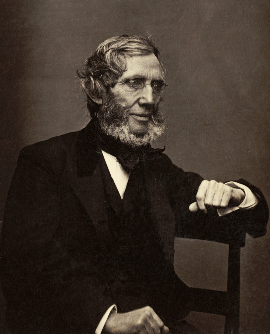 John Torrey (August 15, 1796 – March 10, 1873)